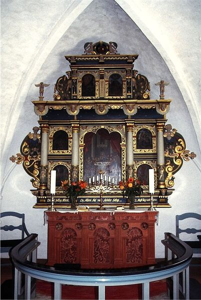 Sejerø Kirke (church)